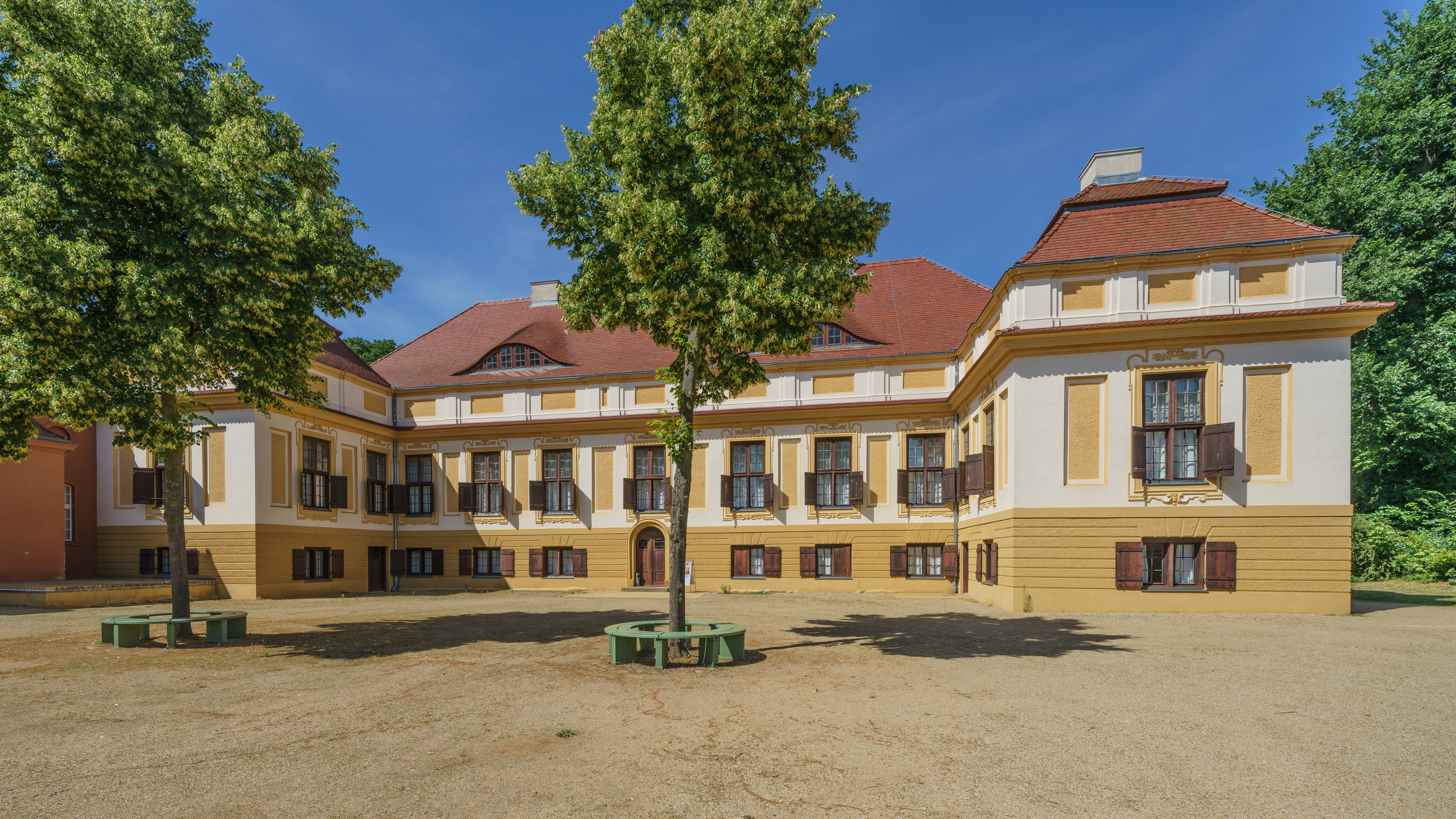 South facade of Caputh Castle near Potsdam, Germany